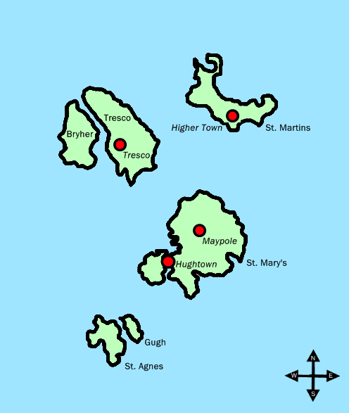 Map of the Isles of Scilly, with N/E/S/W symbols and place-names.